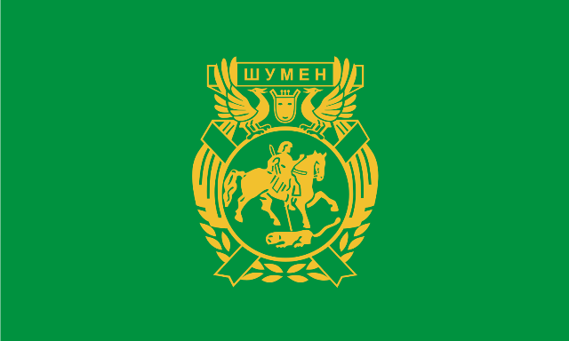 Flag of Shumen, Bulgaria